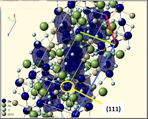 warikahnite atomic structure